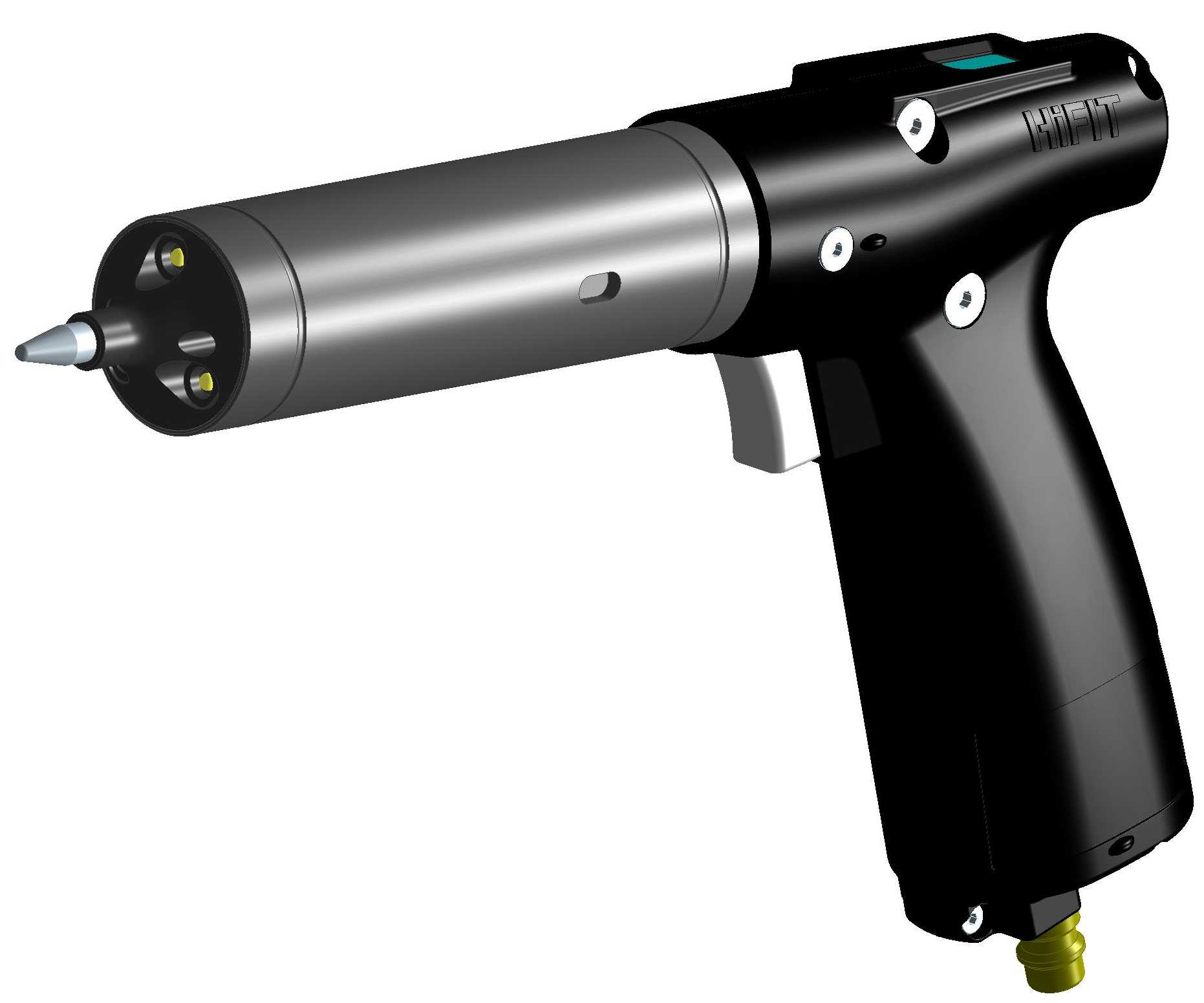 Pneumatic-tool